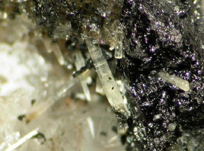 Burbankite Locality: Poços de Caldas, Poços de Caldas plateau, Minas Gerais, Southeast Region, Brazil (Locality at ) Light pink crystal of Burbankite (analysed). Field of view 5 mm. Specimen and photo Leon Hupperichs.